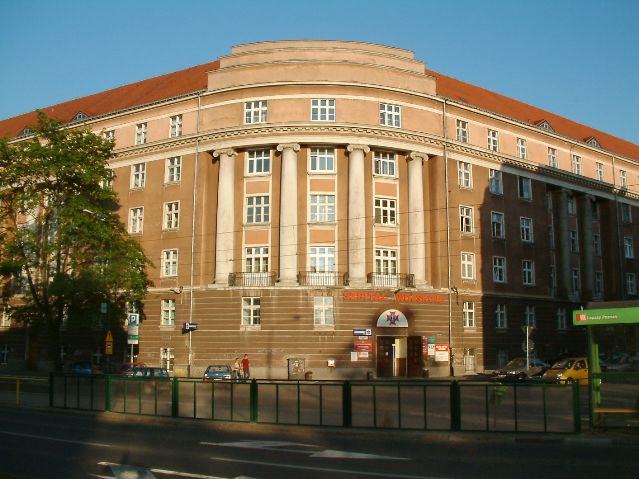 111th Military Hospital in Poznań, Poland